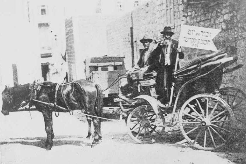 "Remember the Sabbath day to sanctify it" - Announcing the approach of the Sabbath, Haifa 1920